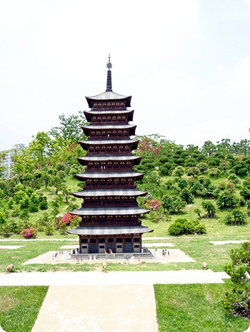 A miniature reconstruction of what the pagoda at Hwangnygongsa Temple may have once looked like before it was destroyed during the Mongol invasion of Korea.